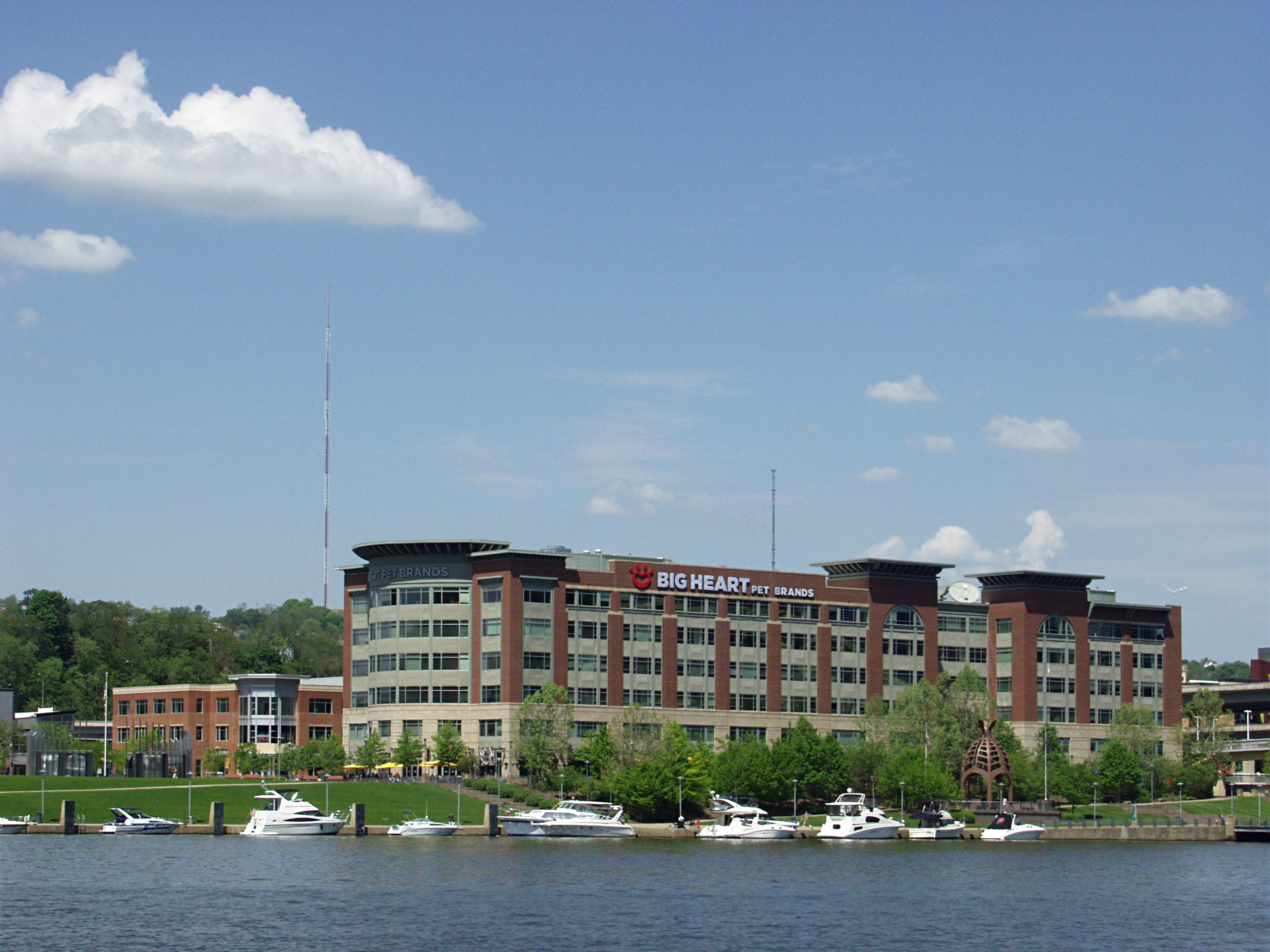 Pittsburgh offices of Big Heart Pet Brands